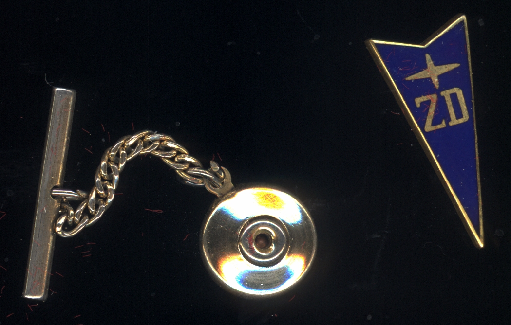 This tie tack was given to my father by Pontiac Motors Division when he was an employee in the mid-1960s, shortly after his honorable discharge from the USAF. He left it to me, when he died.